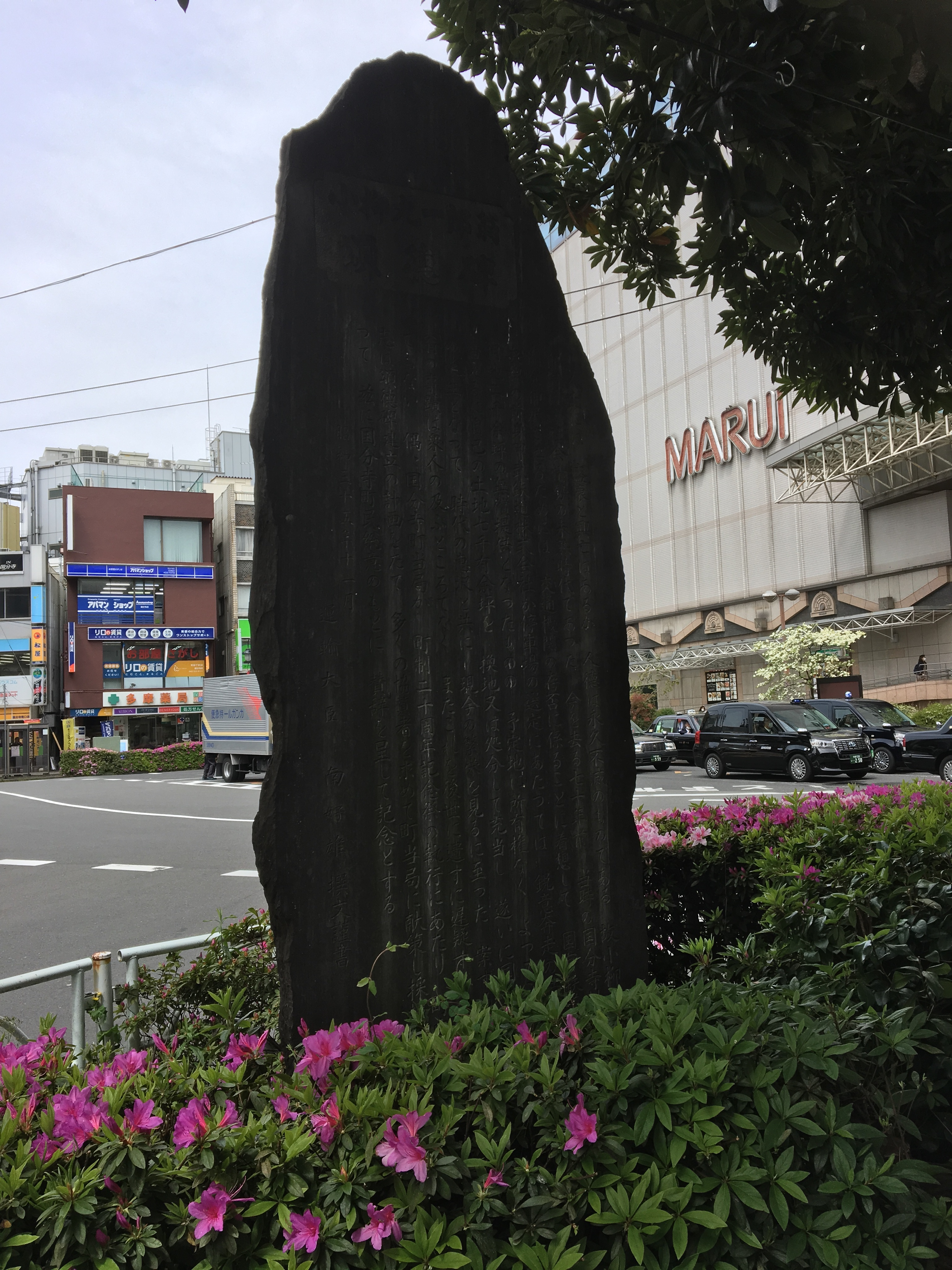 Memorialstone for Kuichiro Koyanagi, 1859-1929, in front of JR Kokubunji station South Gate.